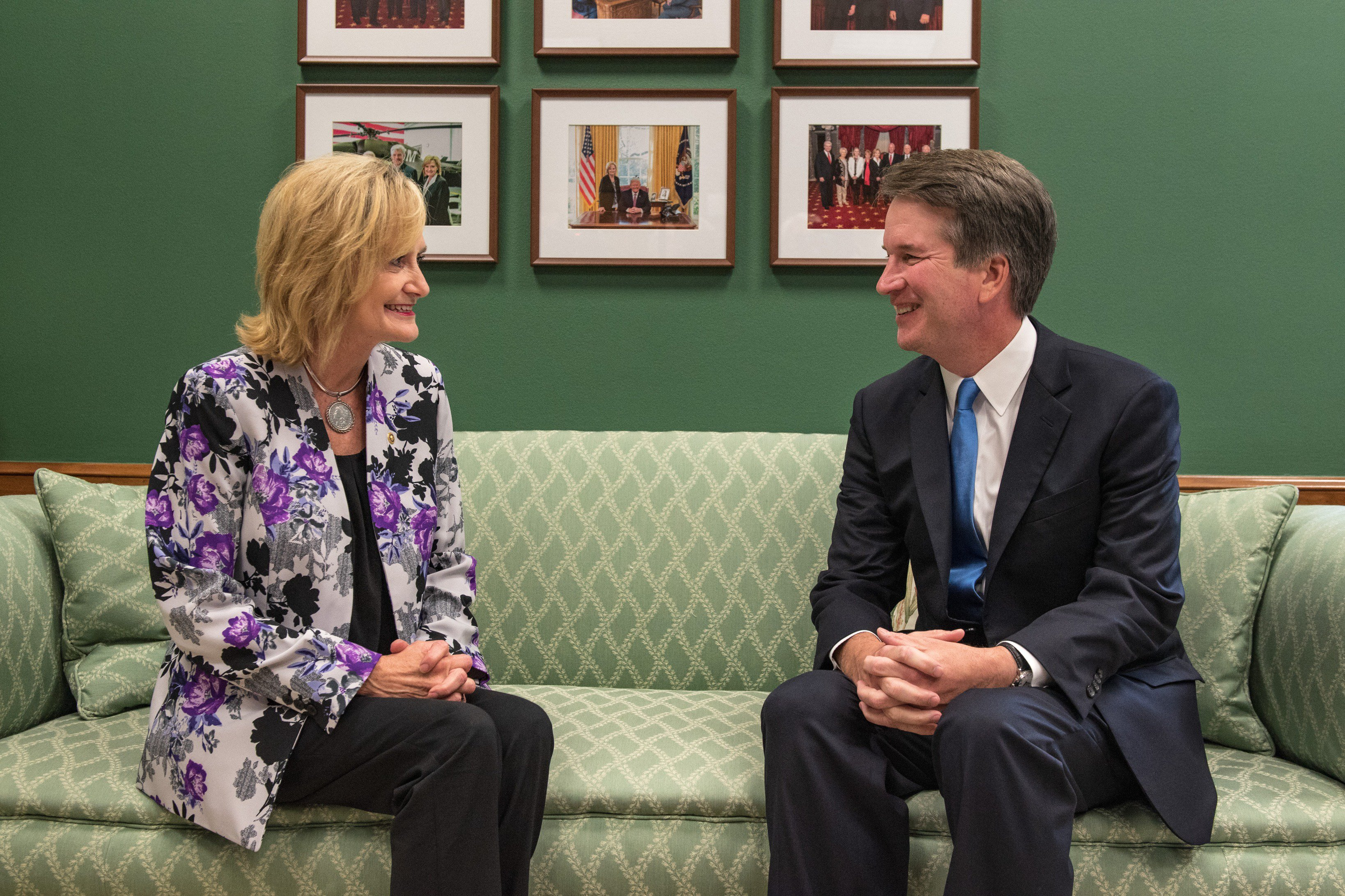 I thoroughly enjoyed meeting Judge Kavanaugh. @POTUS made a great decision in nominating him. I will be an advocate for his #SCOTUS confirmation.